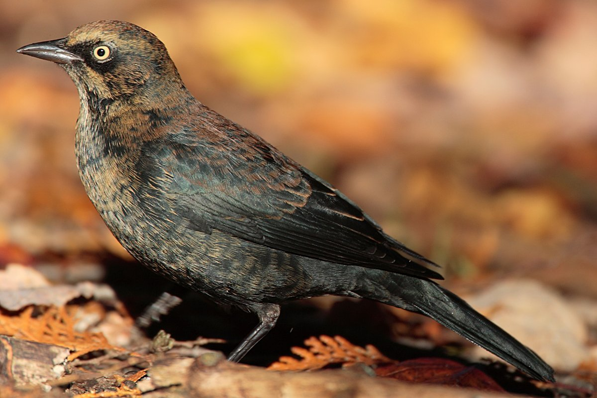 Rusty Blackbird -- Algonquin Provincial Park, Canada -- 2006 October